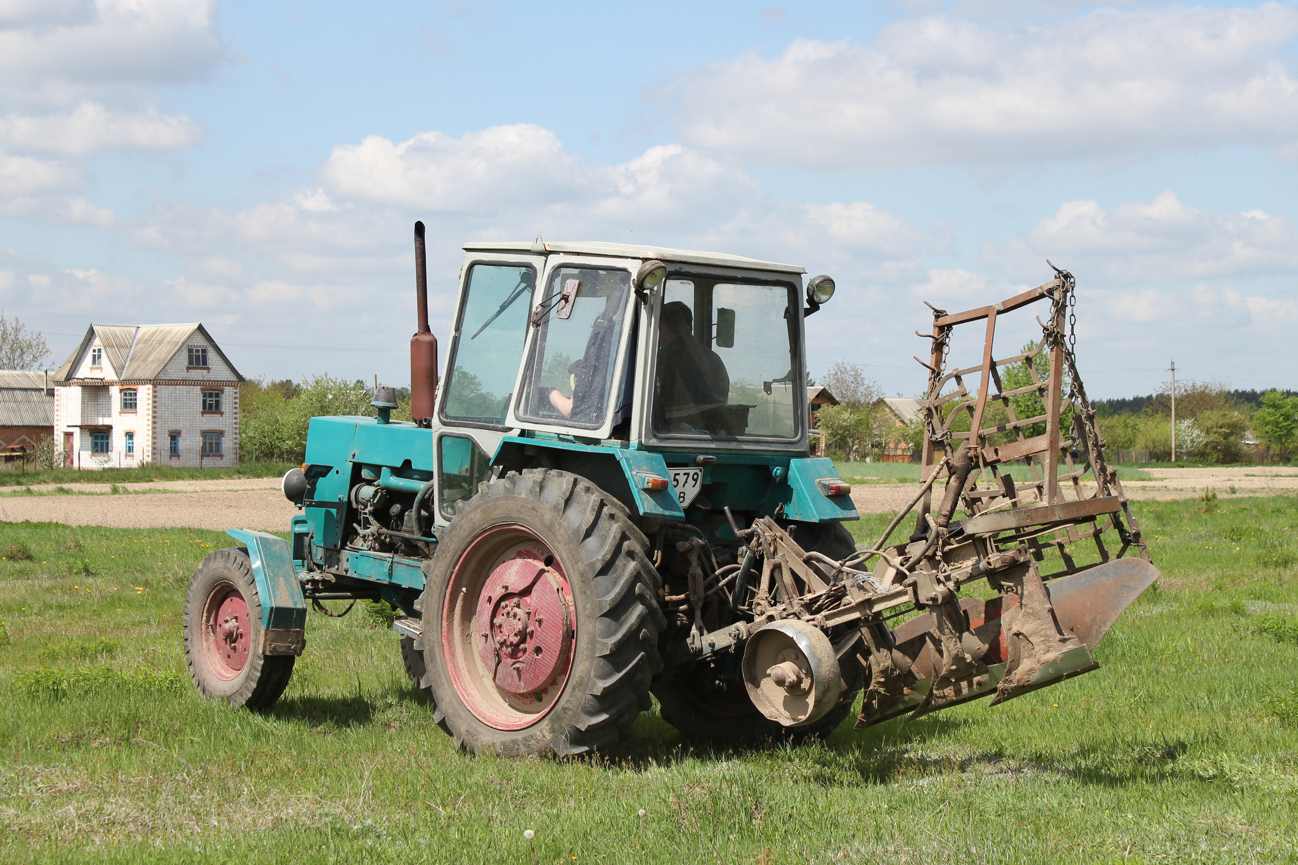 YuMZ-6KL tractor. Was produced in Yuzhmash in 1986. Photo taken in settlement Slavnoe near Vinnitsa, Ukraine.